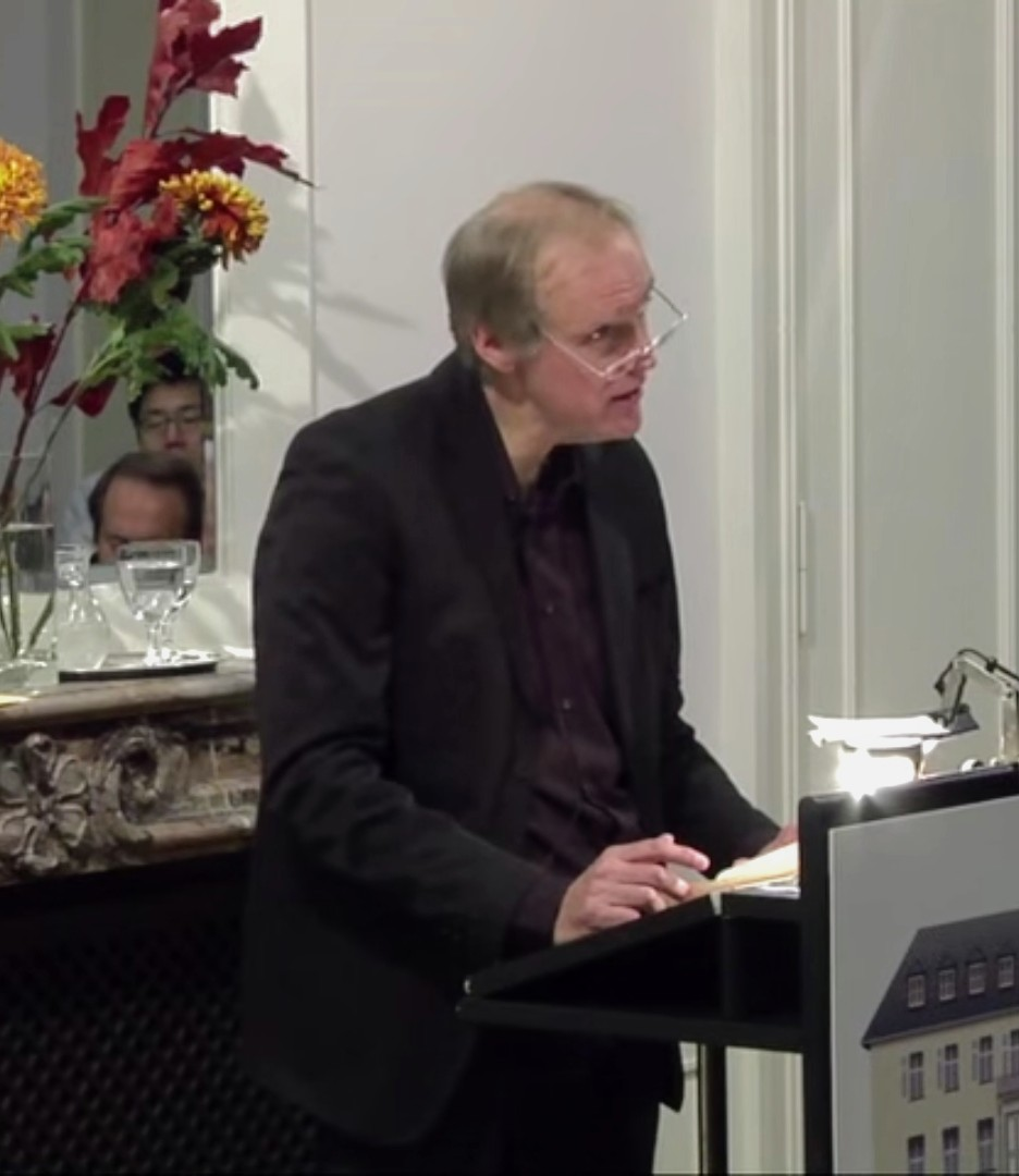 Tom Sleigh, Distinguished Professor at Hunter College, is at the American Academy this fall to put together a new collection of poems. Sleigh has published eight books of poetry, a translation of Euripides' Herakles, a book of essays, and has had five of his plays produced. On the evening of October 25. Sleigh read a few of his recent and forthcoming poems. You can find the full text of "Army Cats," from the eponymous 2011 collection, published by Graywolf Press, on our website